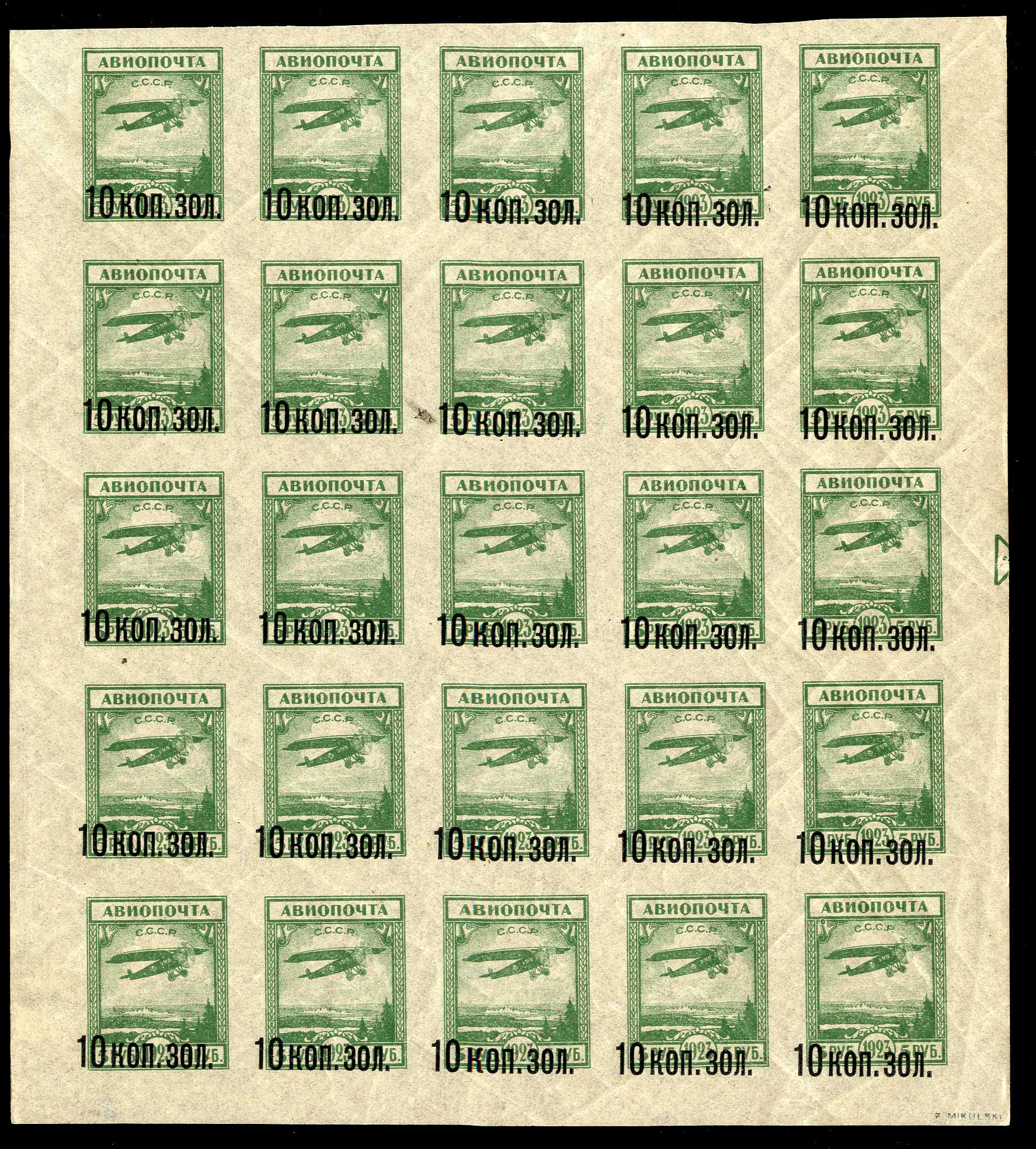 Cherrystone Auctions note: "RUSSIA Air Post 1924 10k on 5r green type II, basic stamp wide "5", complete pane of 25 showing diagonal shift of surcharge, never hinged and post office fresh, natural gum creases and gum skips at bottom right, each stamp with a double "Goznak" handstamp on back, also signed in pencil and by Mikulski. A major museum-quality rarity from the Soviet Union, ex-Mikulski collection. Of considerable Air Post and world-wide importance, undoubtedly unique! (Standard Cat. $105,000+ for singles). Price Realized: $700,000.00."